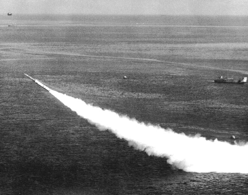 Submarine Rocket (SUBROC). Underwater firing of SUBROCK off San Clemente Island.